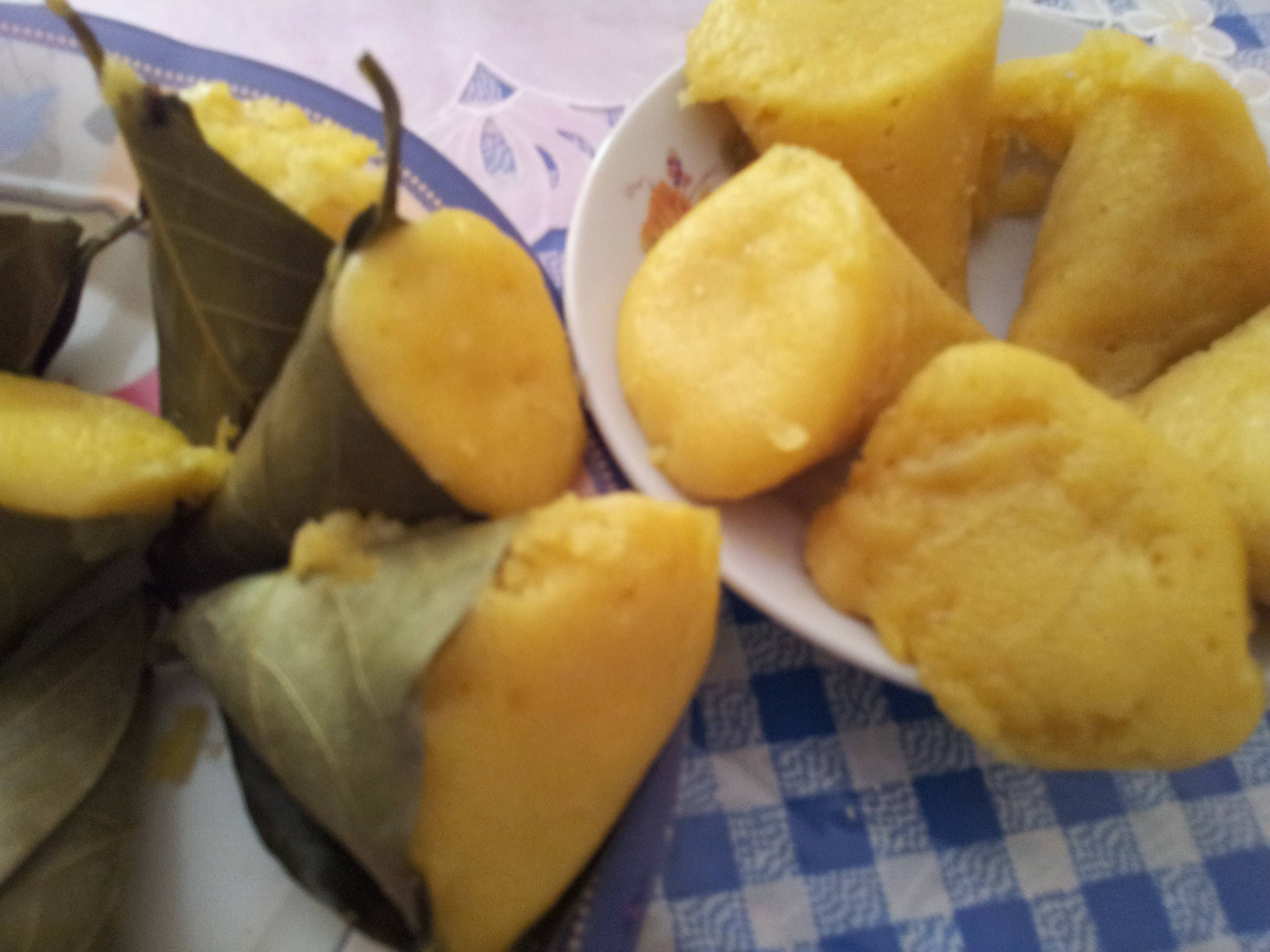 the pithas are wrpped in leaves